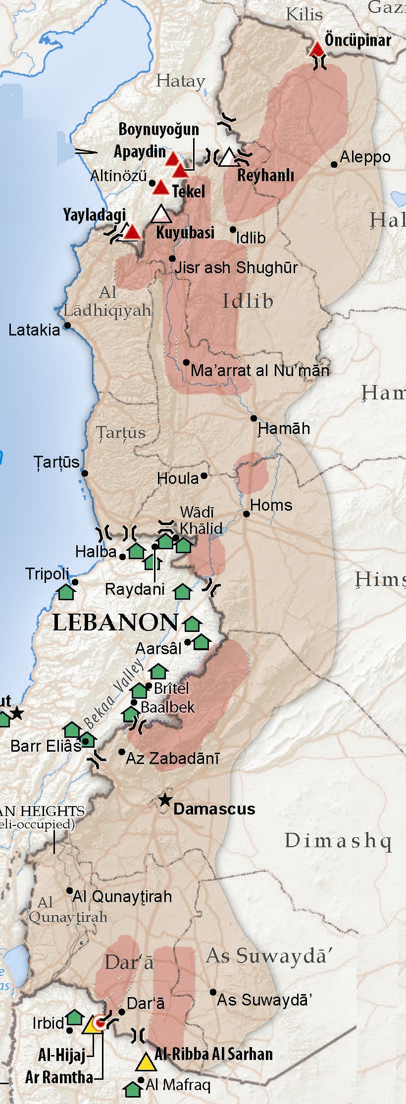 Free Syrian Army occupied locations in Syria during its civil conflict, June 2012.